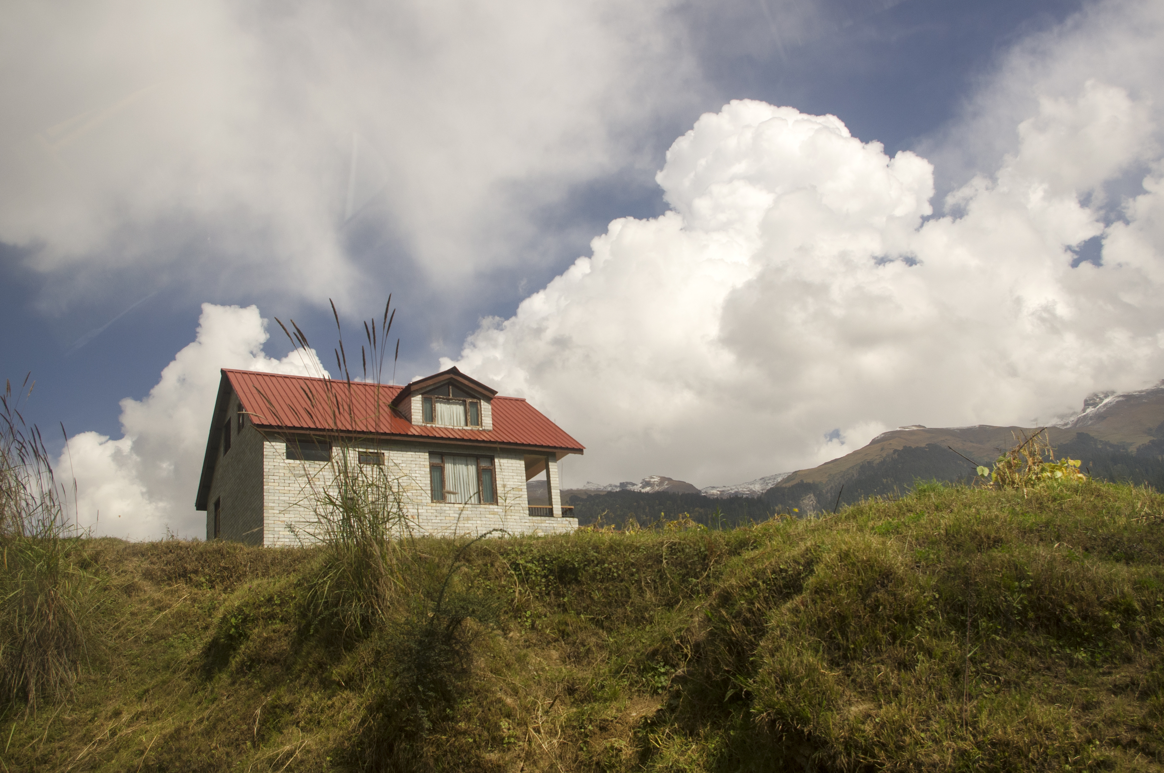 A beautiful house in the mountain. Wanted to spend a day there so badly